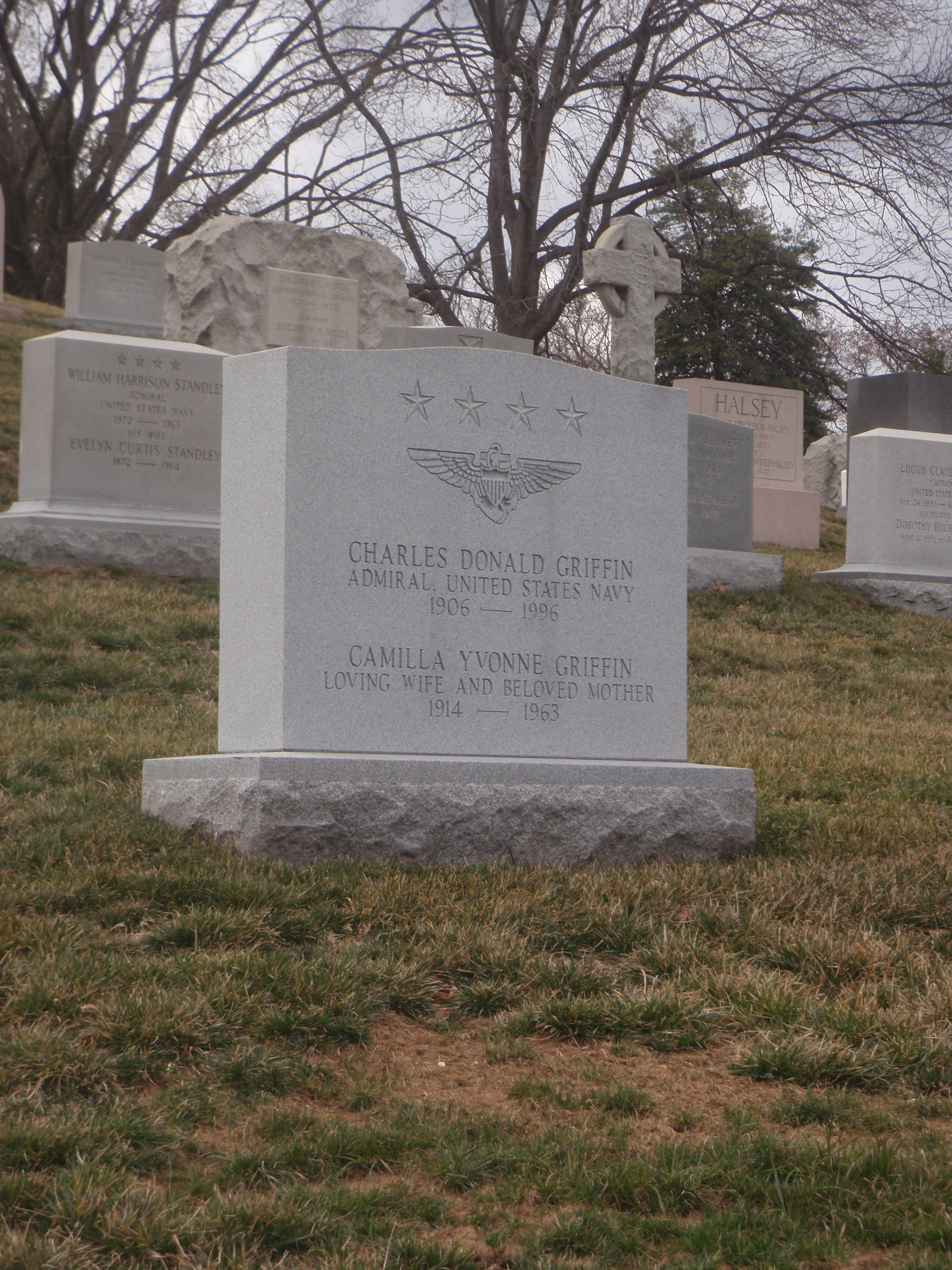 Tombstone of Admiral Charles Griffin in section 2 of Arlington National Cemetery.